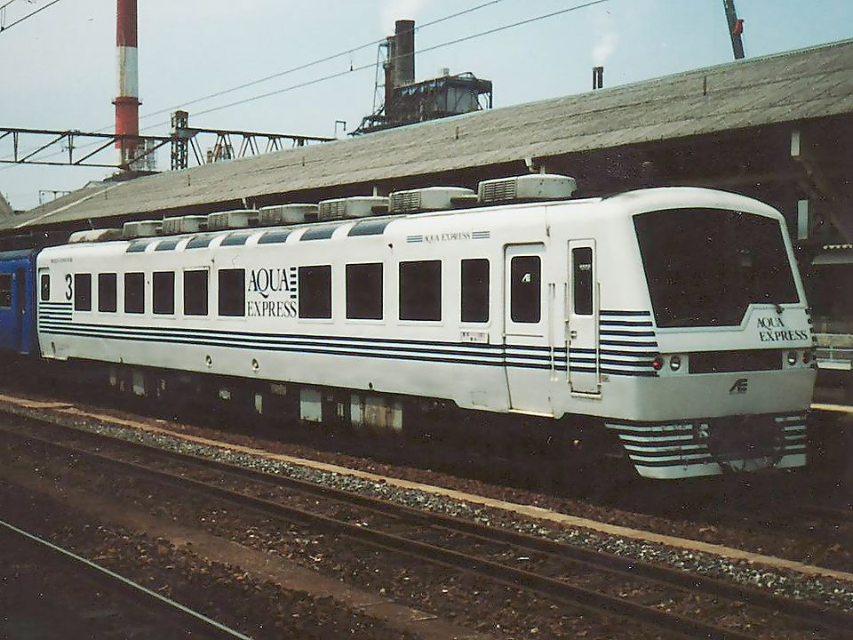 JR Kyushu Type:DMU type kiha58. Code:キハ58 7004 (AQUA EXPRESS) Location:At Yatsushiro Station, in Yatsushiro City, Kumamoto. Scanned from negative color print